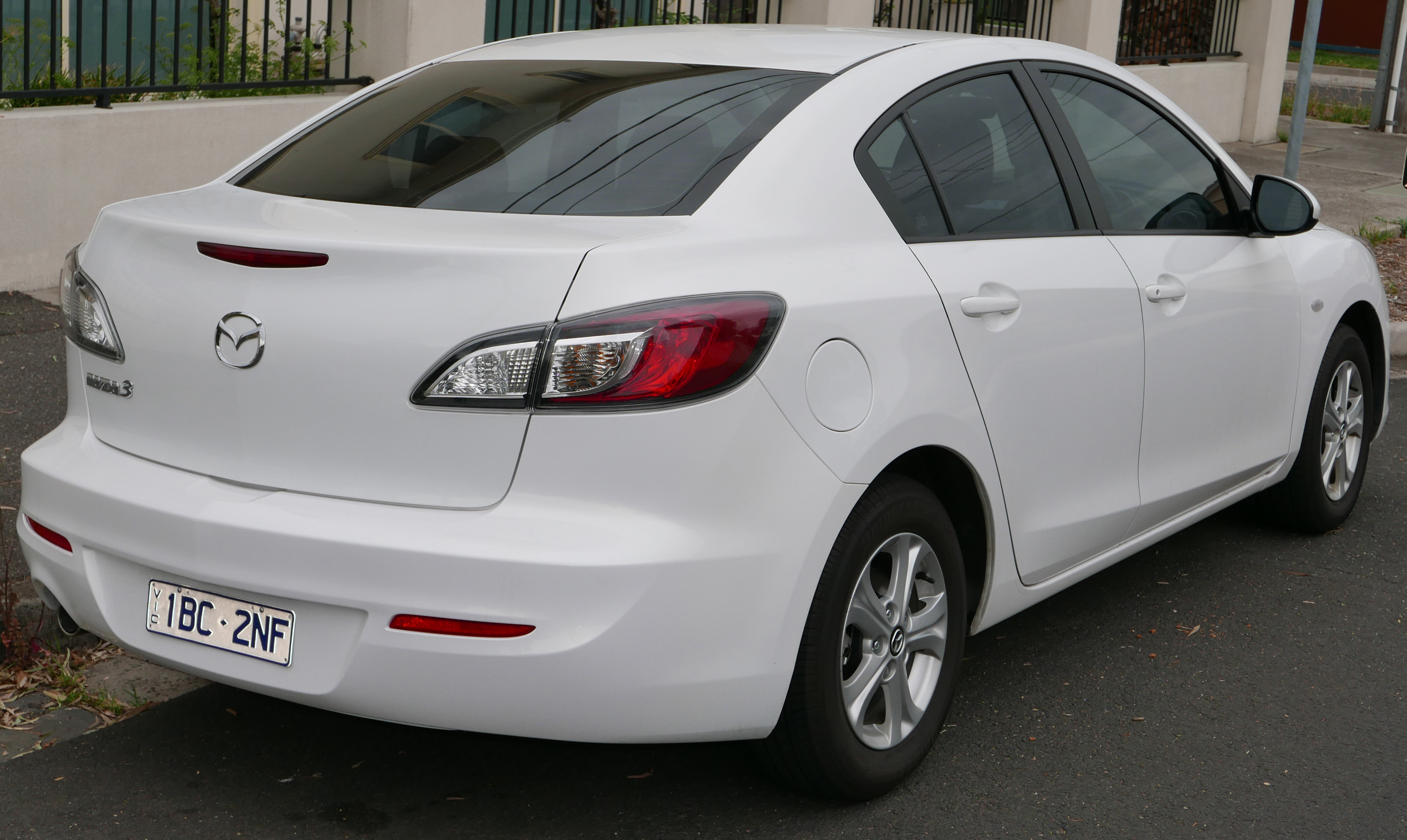 2013 Mazda3 (BL Series 2 MY13) Neo sedan. Photographed in Coburg, Victoria, Australia. Vehicle registration enquiry resultsJurisdictionVictoriaRegistration1BC2NFChassis codeJM0BL10F200420697Engine codeLF11549390Compliance date2013-07Year of manufacture2013